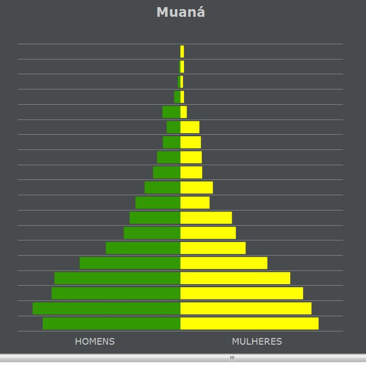 Age pyramid of the city of Muaná